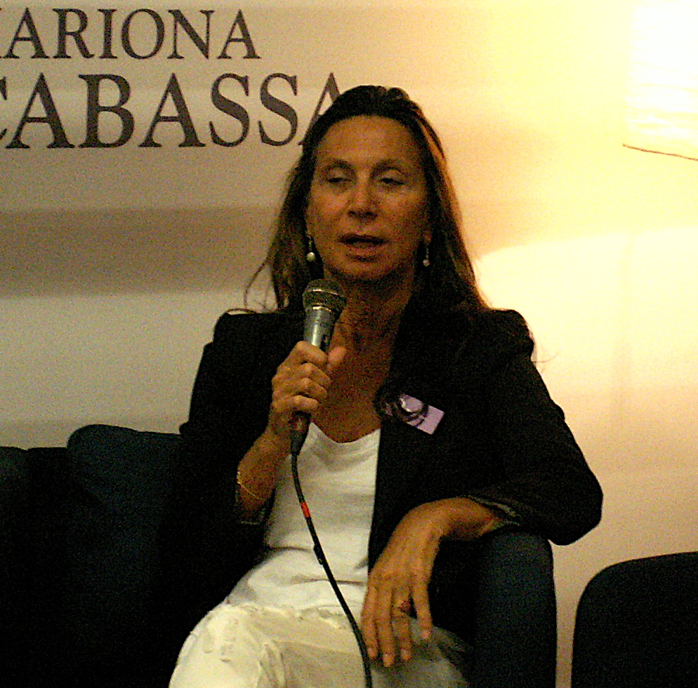 At the Göteborg Book Fair 2014.